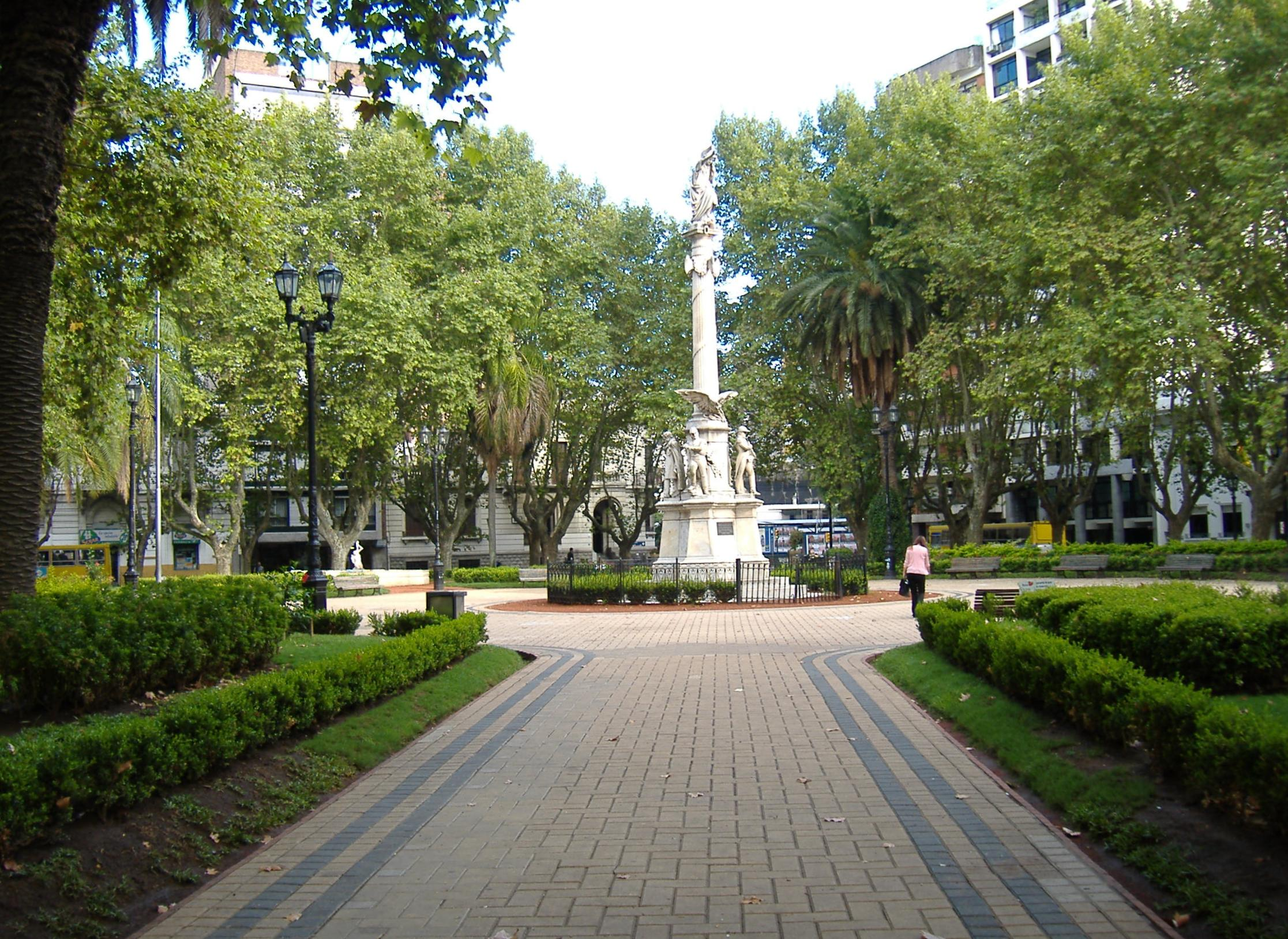 Plaza 25 de Mayo (May 25th Square), an urban square at the civic center of Rosario, Argentina.